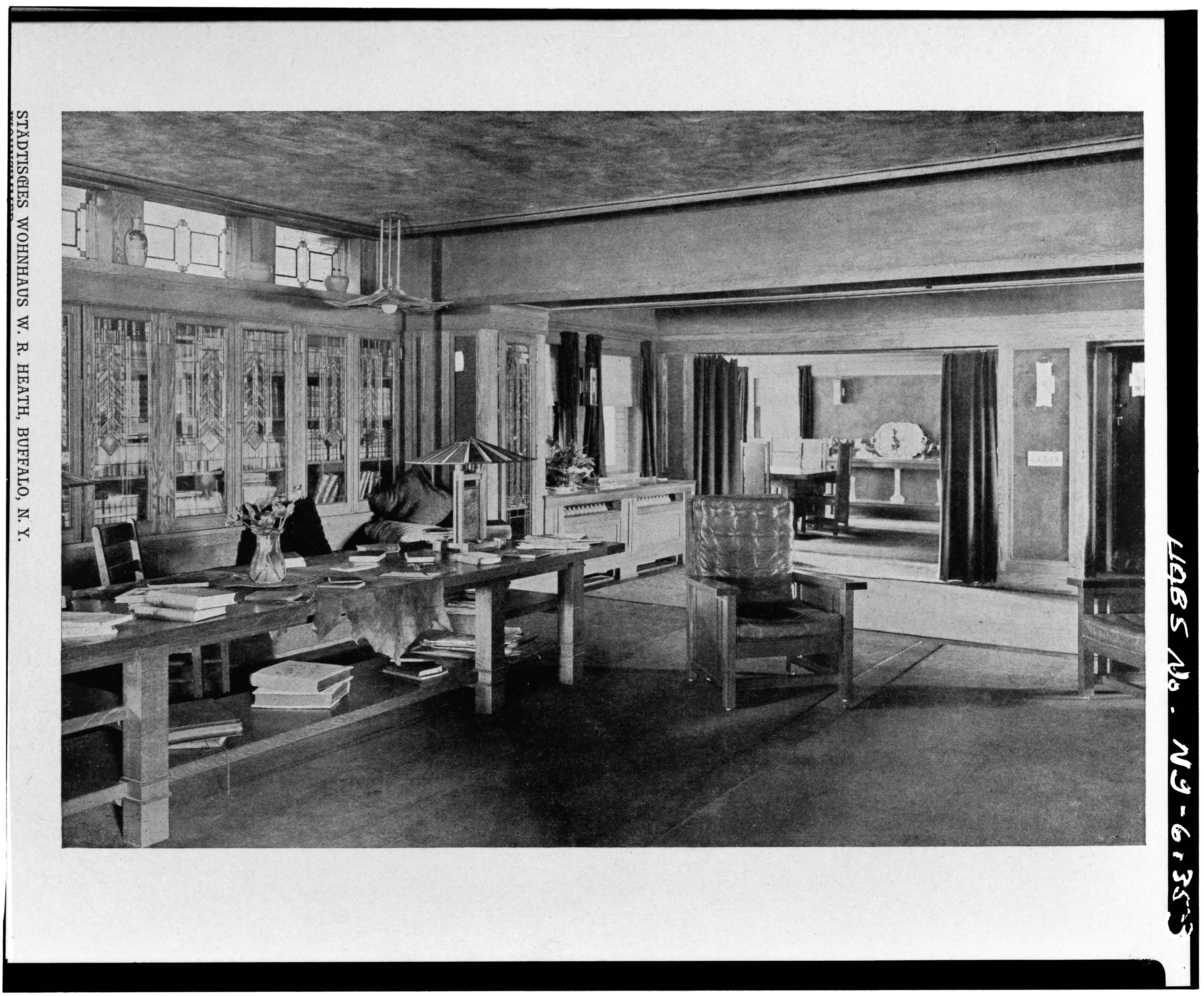 3. PLATE #81, 'WOHNZIMMER' LIVING ROOM - W. R. Heath House, 76 Soldiers Place, Buffalo, Erie County, NY